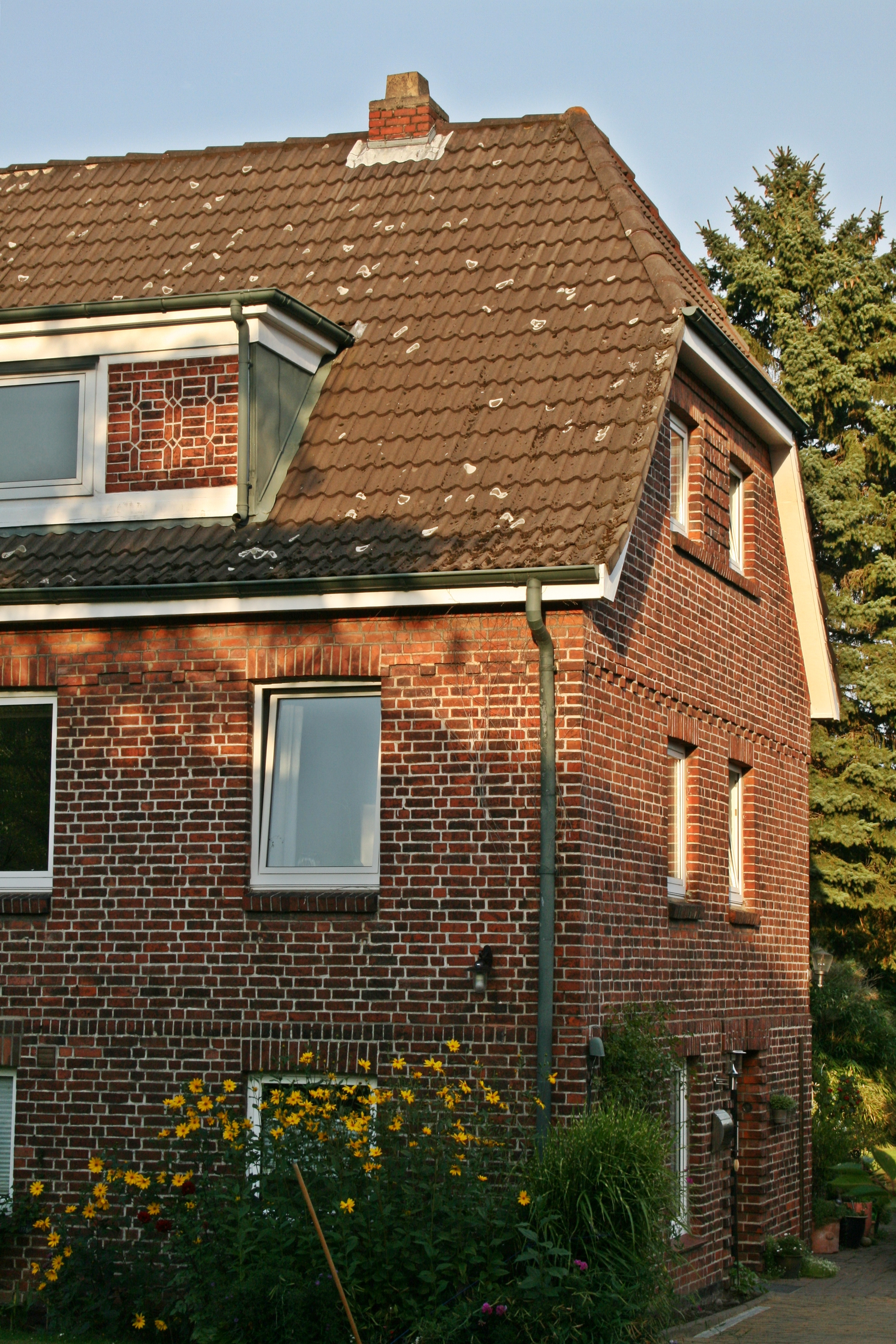 House of Meta Emma Anna Lübkemann, a victim of the Nazi Germany's "Euthanasia programme